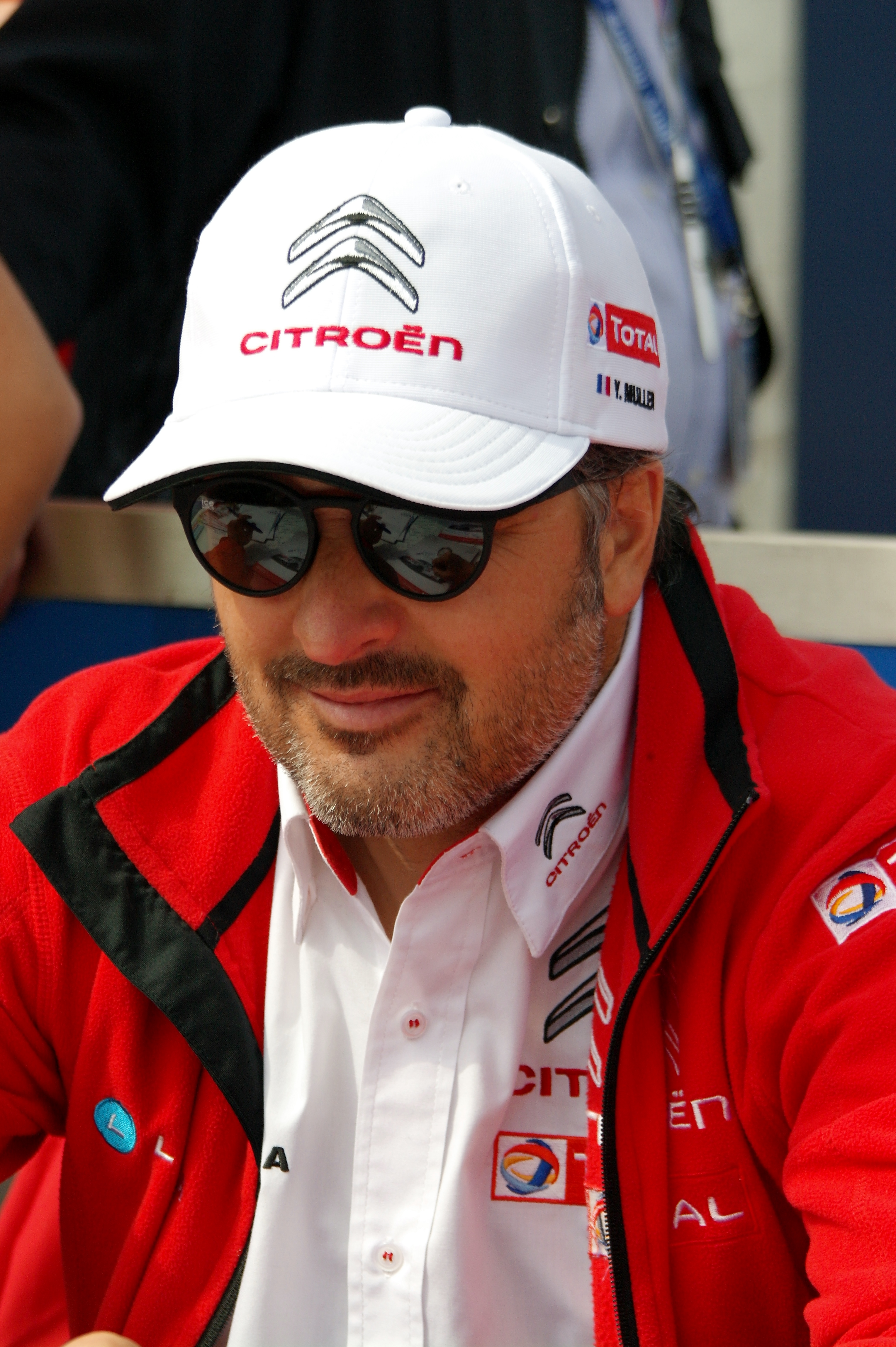 Yvan Muller at the 2014 FIA WTCC Race of Belgium, held at the Circuit de Spa-Francorchamps.